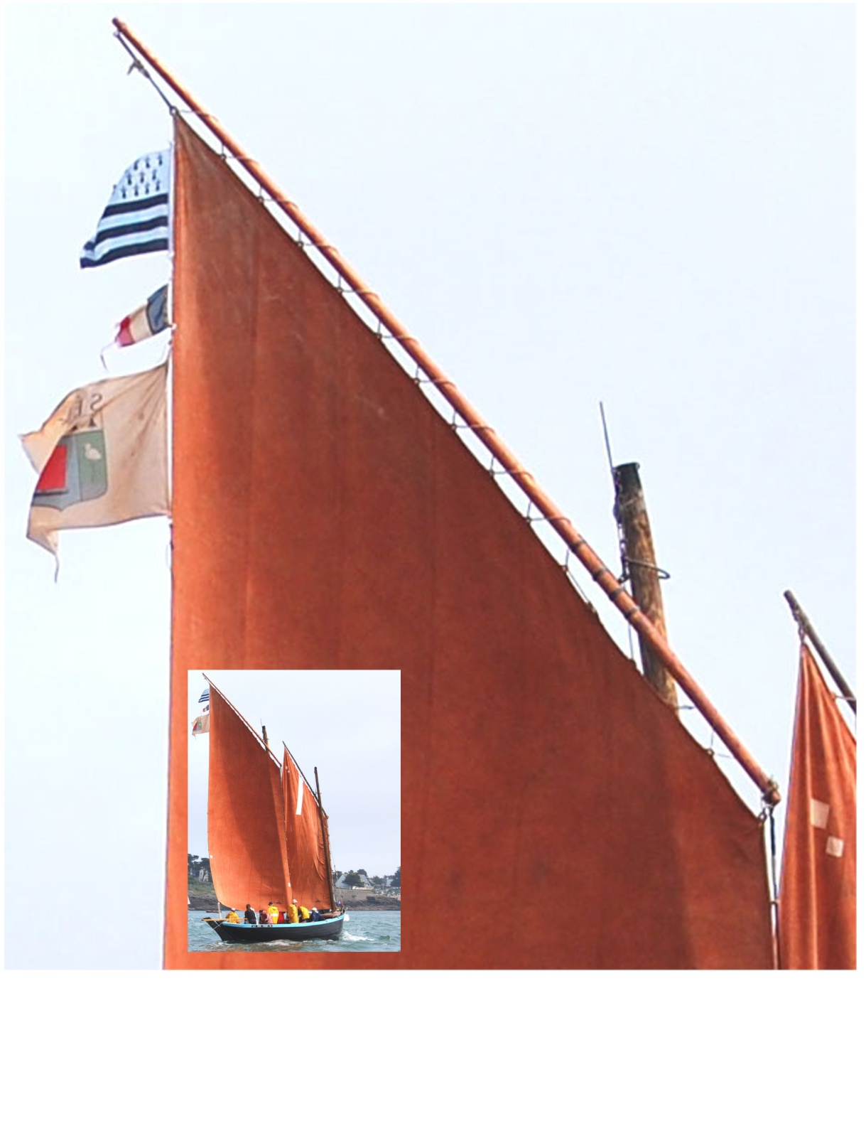 France, Morbihan, Morbihan's gulf, sinagot